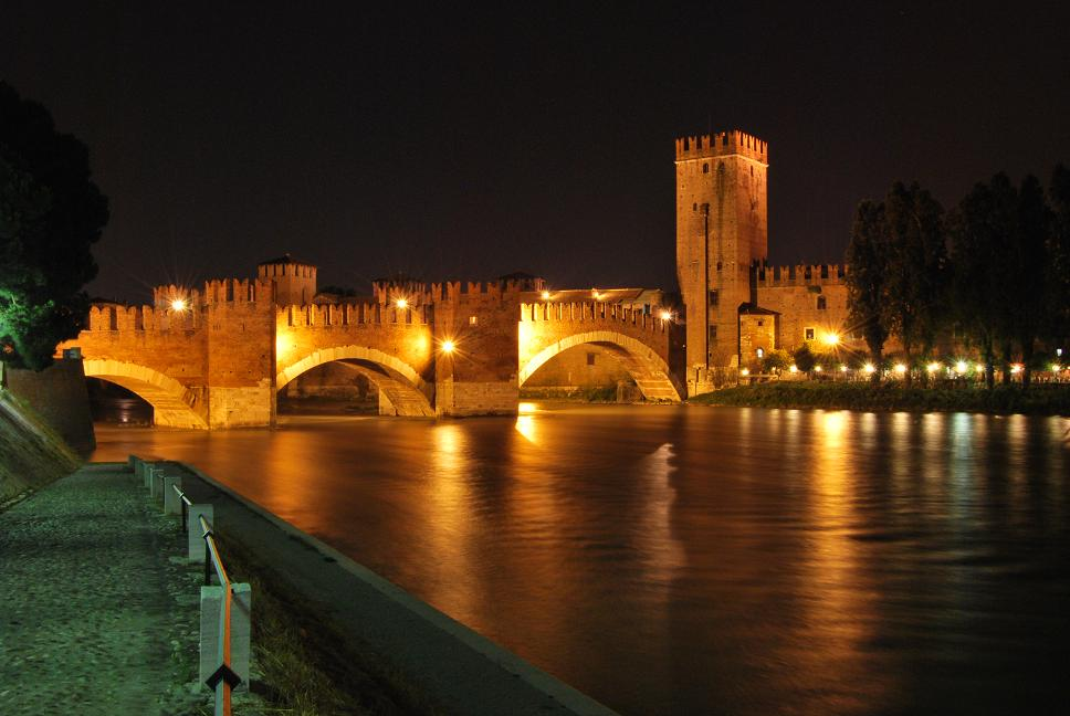 Castelvecchio bridge at night